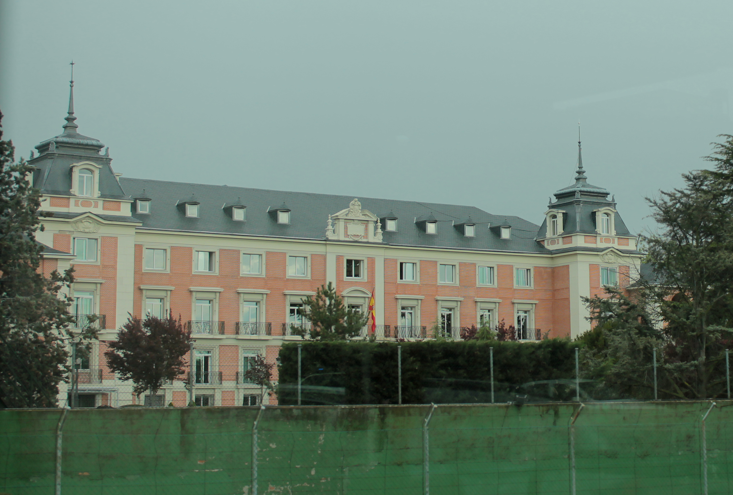 North-west façade of Moncloa Palace in Madrid (Spain).